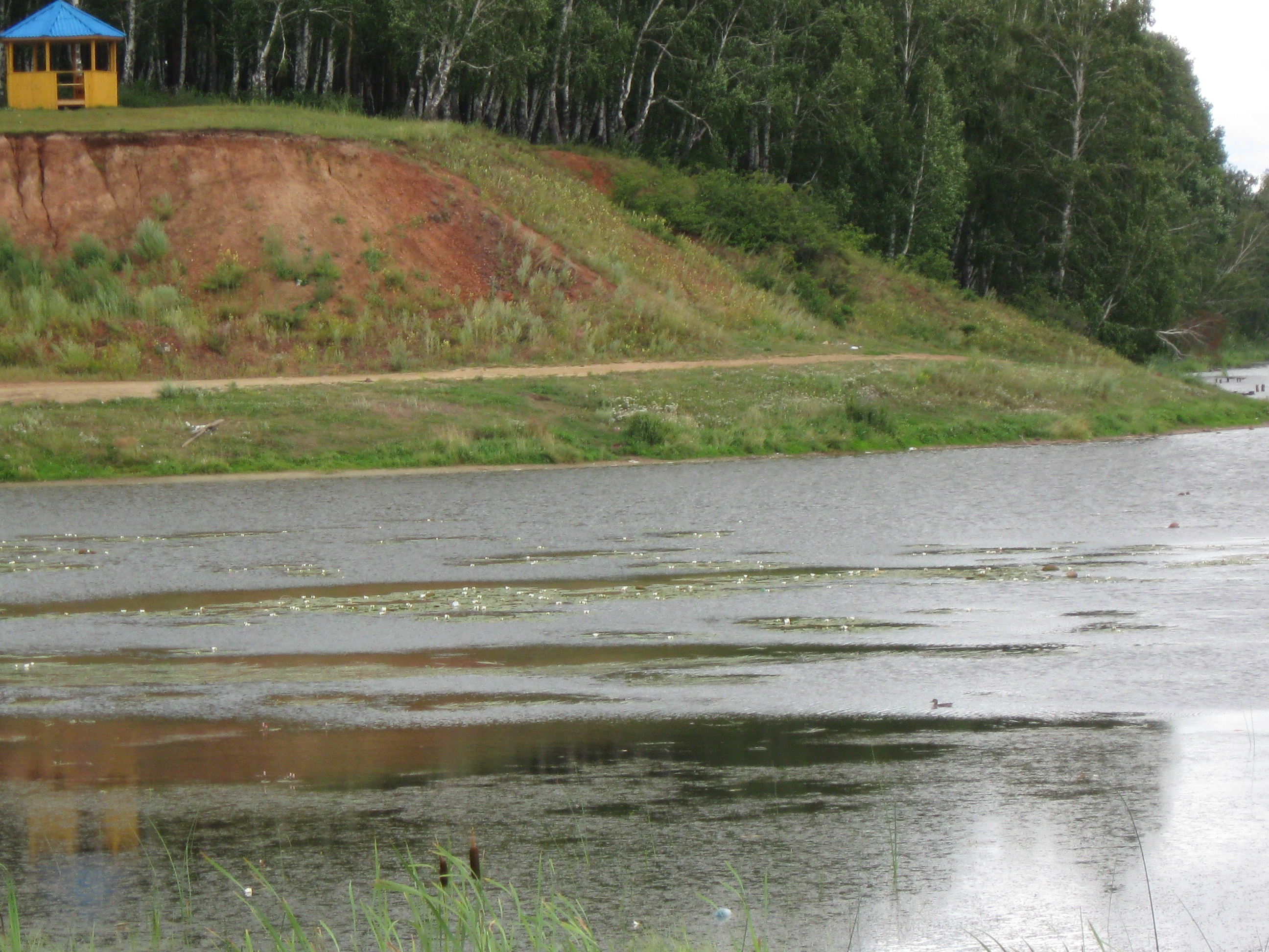 Aban river in Aban rural locality